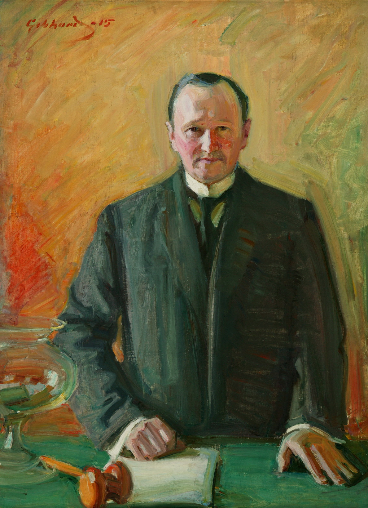 Painting of Oskari Tokoi, Speaker of the Finnish Parliament in 1913, for the gallery of Speakers of the Parliament.